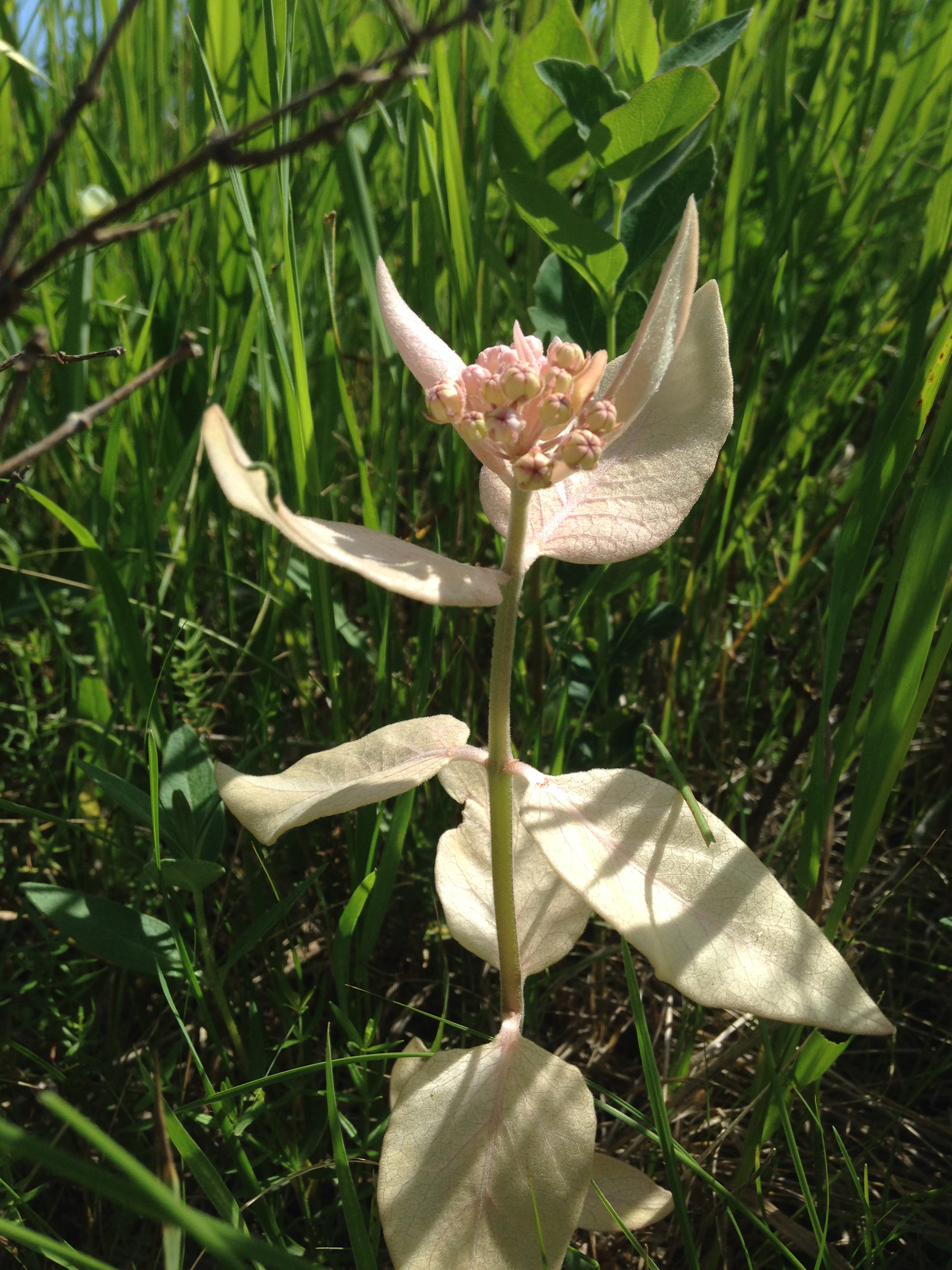 This uncommon "albino" form of milkweed does not have the chlorophyll normally produced by plants. It is likely a chromosomal abnormality and the plant could be surviving by parasitism (getting it's nutrients from other plants). Plant found on the Miller Waterfowl Production Area, Logan County, North Dakota. Photo Credit: Krista Lundgren/USFWS